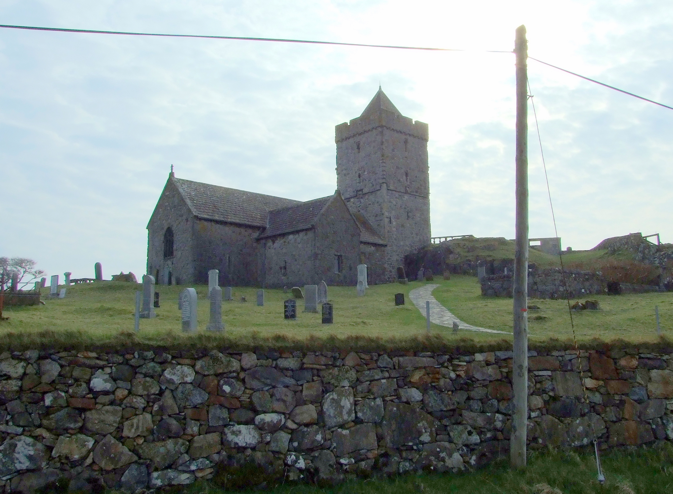 Photo of St Clements Church, Rodel, Isle of Harris, Scotland